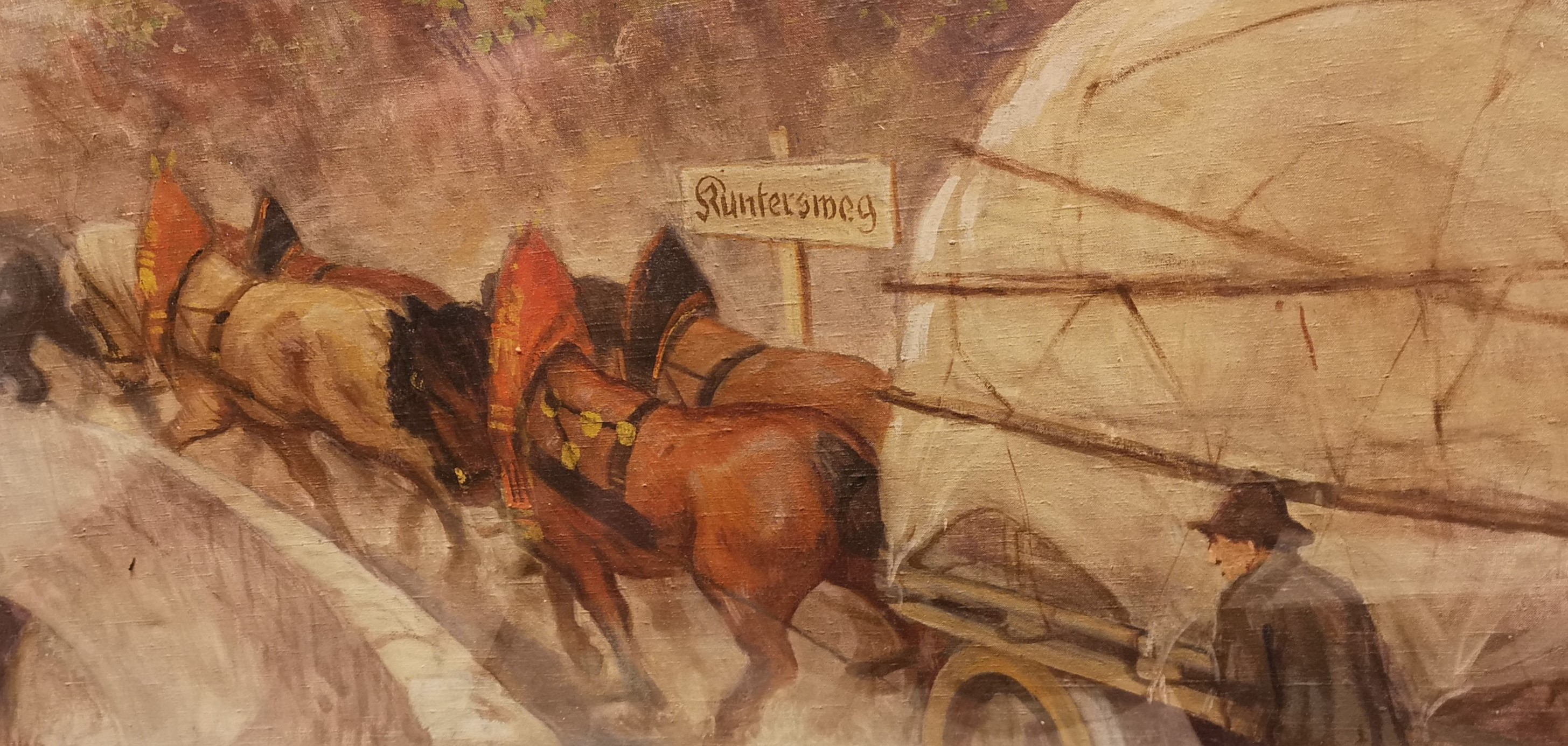 Oil canvas of Albert Stolz (died 1947), showing the medieval Kuntersweg road in South Tyrol